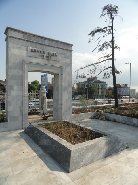 Grave of Enver Pasha (1881-1922) at Istanbul, Sisli Abide-i Hurriyet Cemetry.